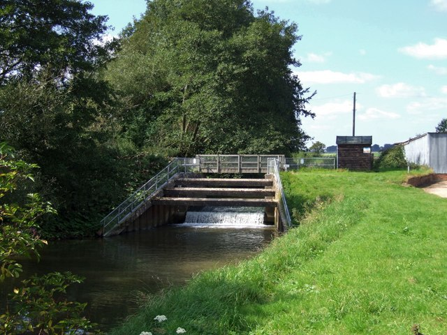 Weir, Partney Weir on the River Lymn at Mill Farm, Partney. The weir incorporates a footbridge for the footpath from Hundleby.